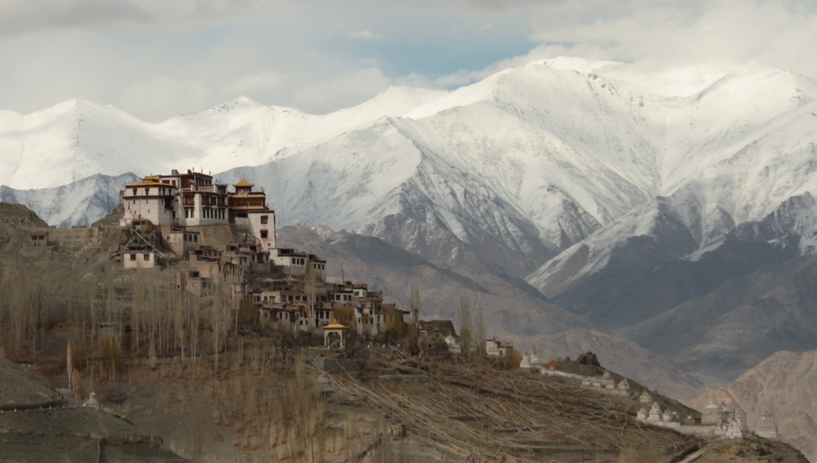 Matho Monastery in winter